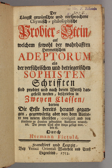 Title page of Der Längst gewünschte und versprochene chymisch-philosophische Probier-Stein, auf welchem so wohl der wahrhafften hermetischen Adeptorum als der verführischen und betriegerischen Sophisten Schrifften sind probirt und nach deren Werth dargestellt worden, beschrieben in zweyen Classen, Frankfurt and Leipzig: Veraci Orientali Wahrheit and Ernst Lugenfeind, 1753. A quite unusual and late annotated bibliography of alchemical writings. It is unique in that Fictuld separates the sheep and the goats, including separate volumes treating true adepts and “sophists” (charlatans). This is the second, preferable edition; the first (1740) and third (1784) treat only the adepts.